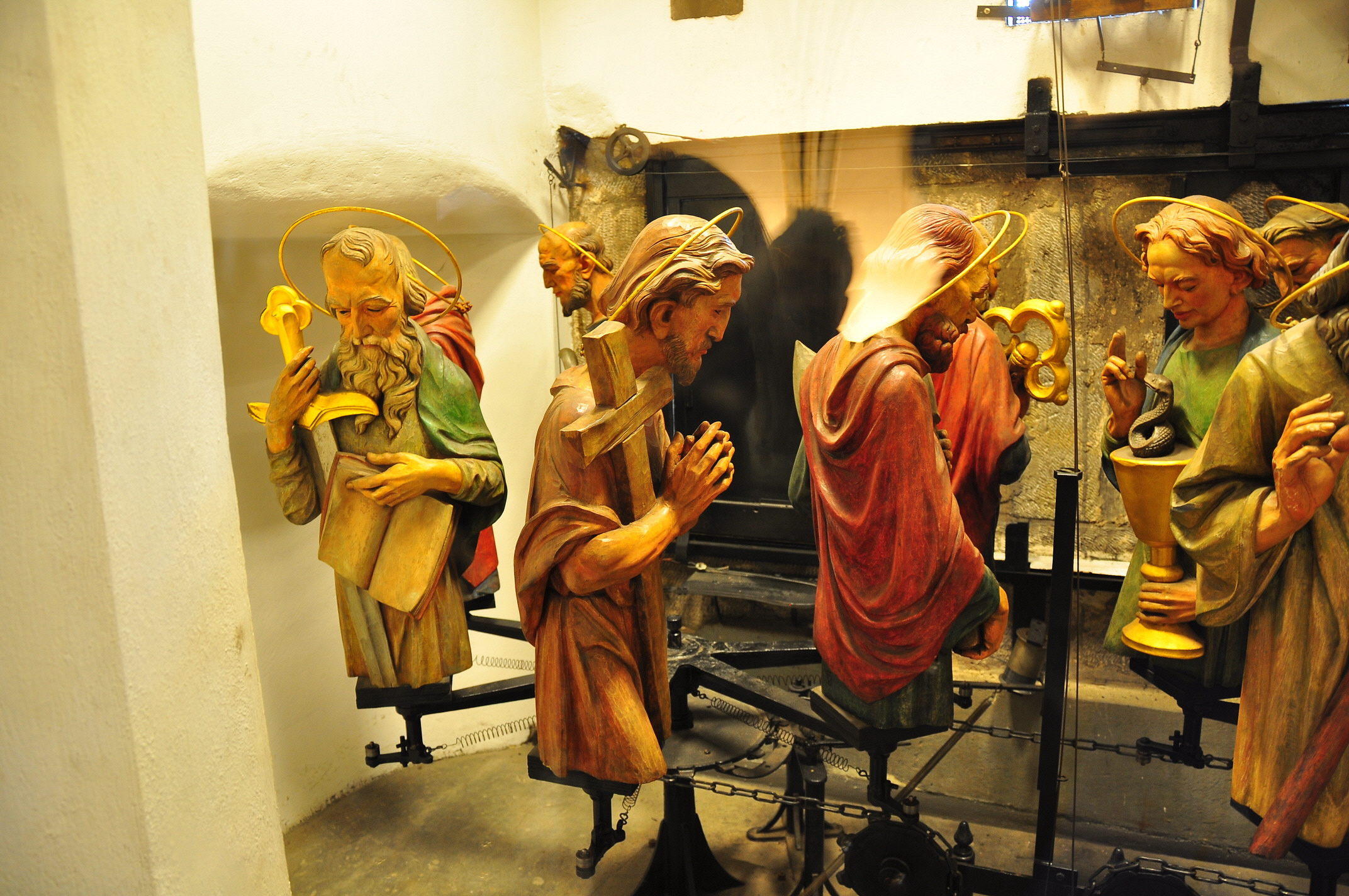 Apostles on the Prague Astronomical Clock